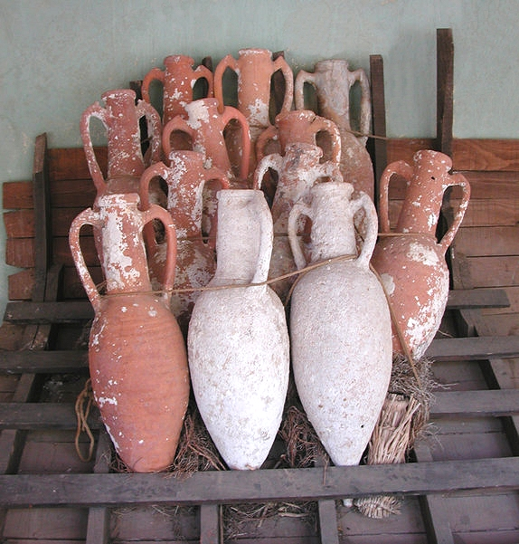 Amphorae on display in Bodrum Castle, Turkey